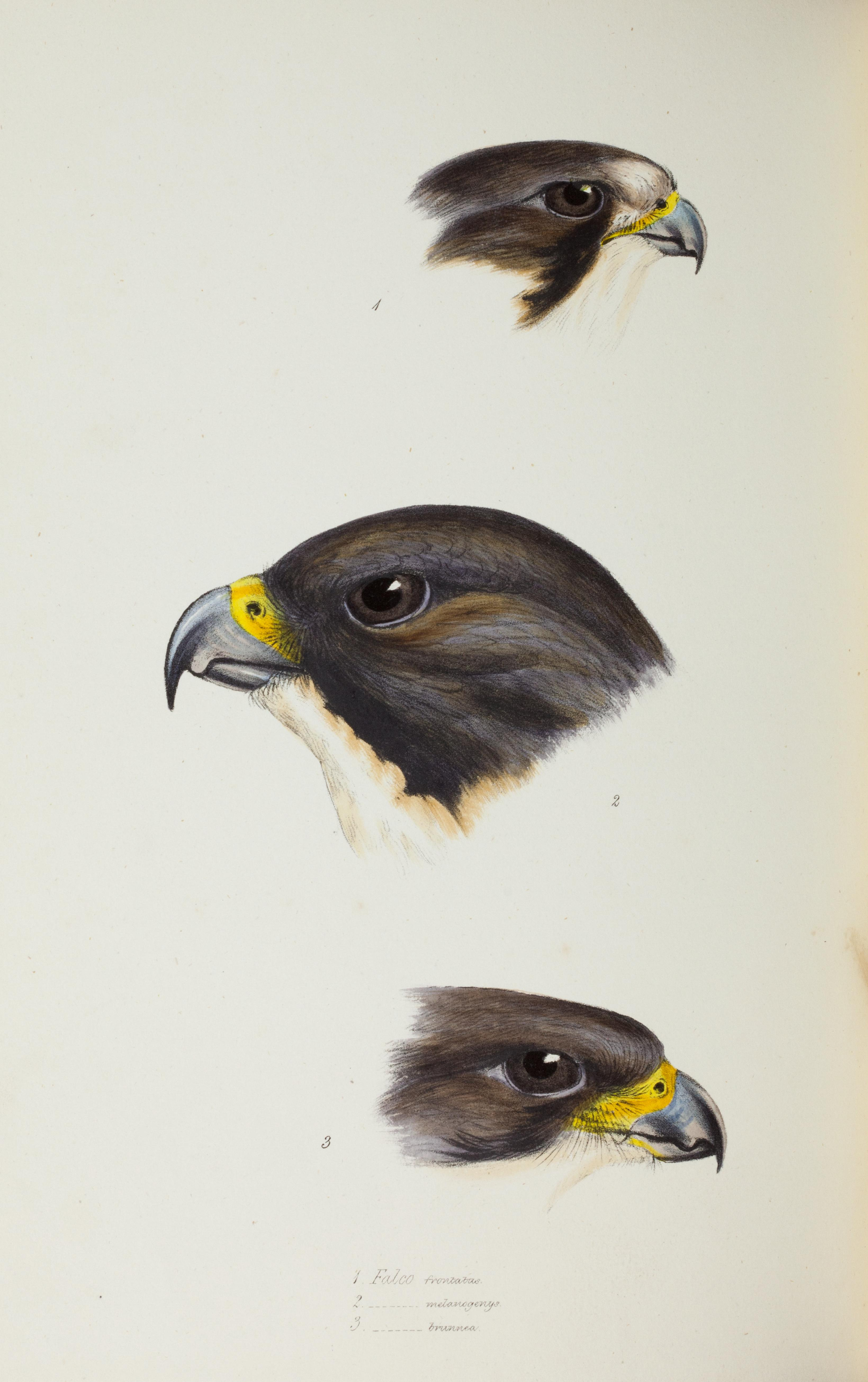 A synopsis of the birds of Australia, and the adjacent Islands /